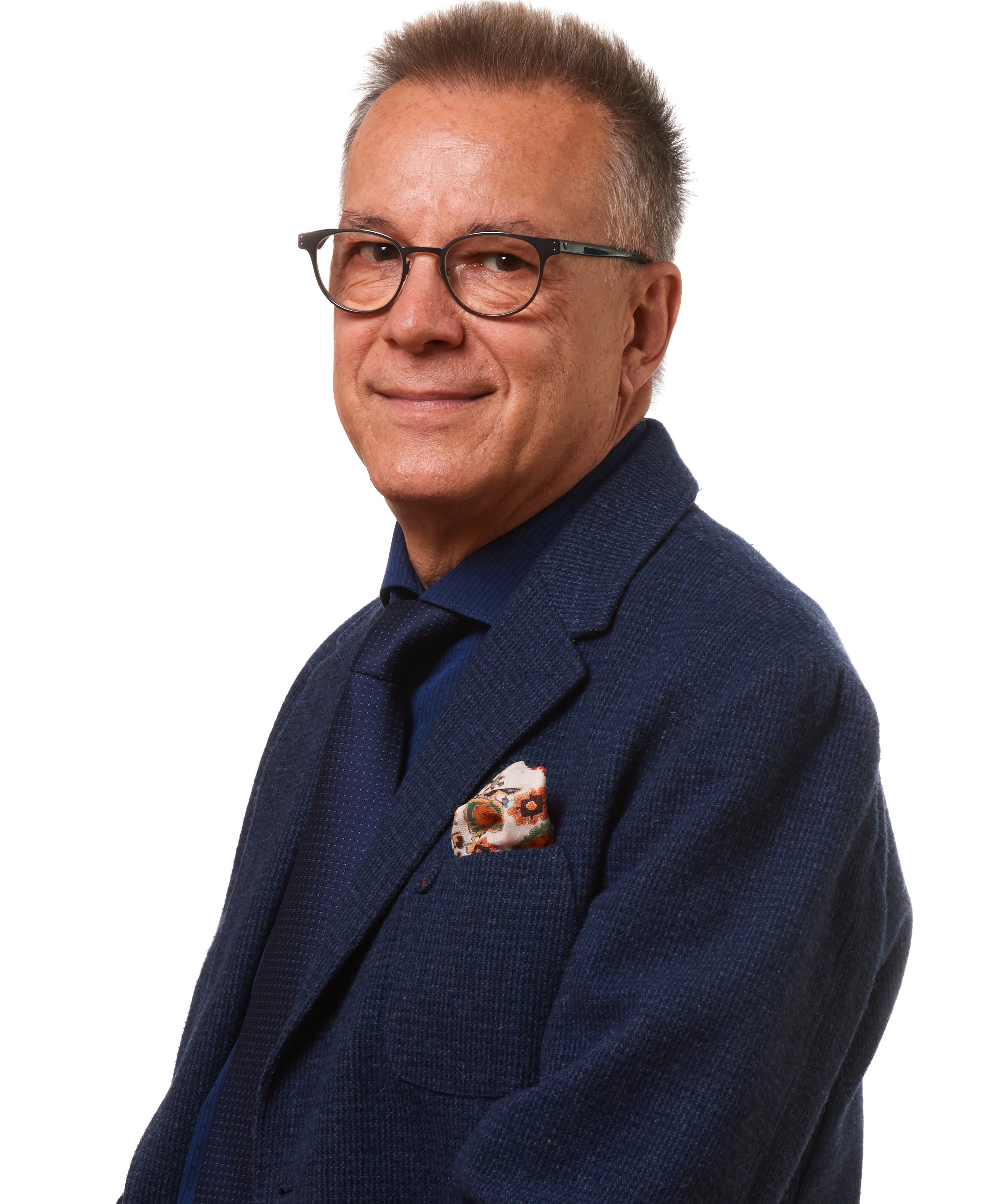 Portrait of Italian composer Lorenzo Ferrero